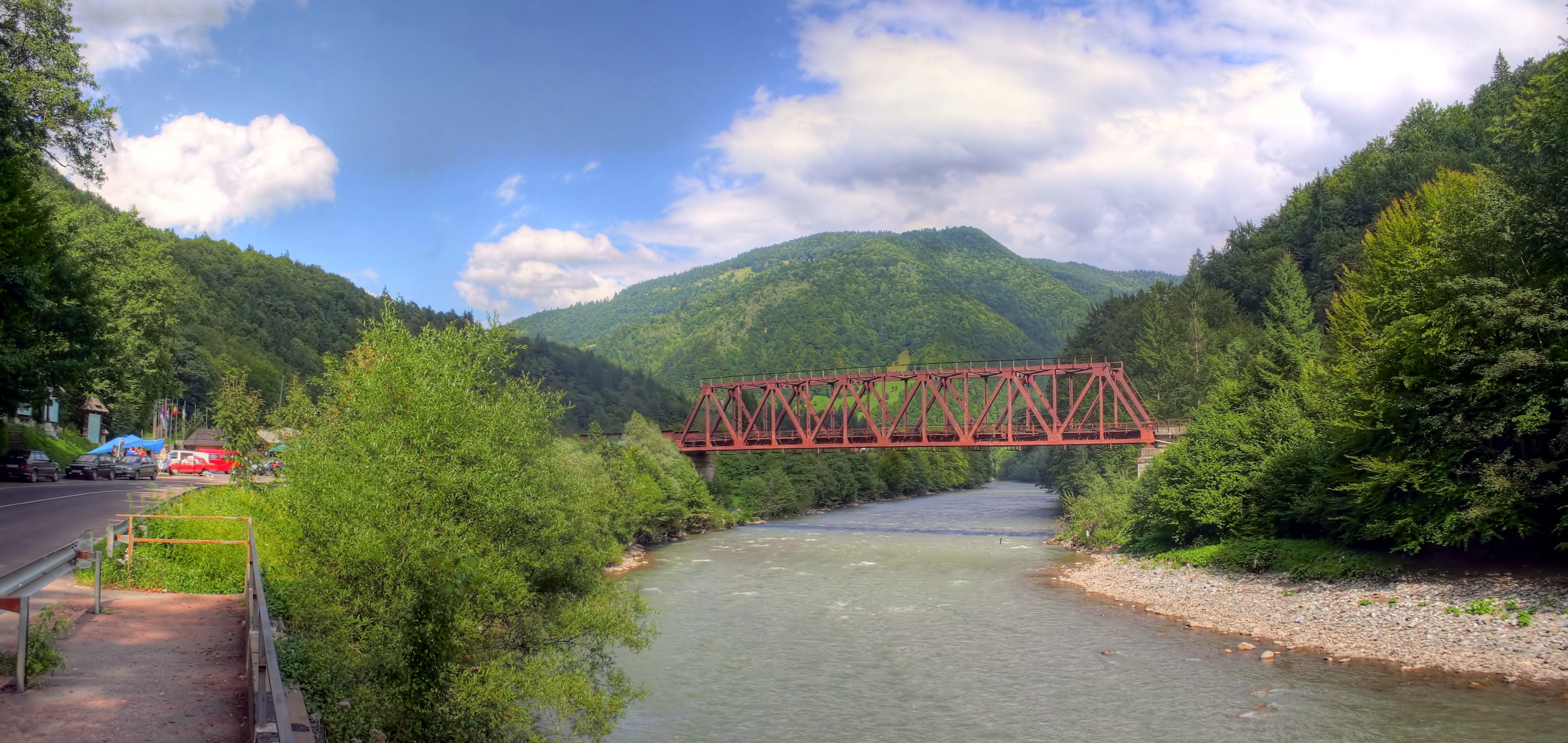 Railway bridge over the river Tisza south of Rakhiv, near the Center of Europe.